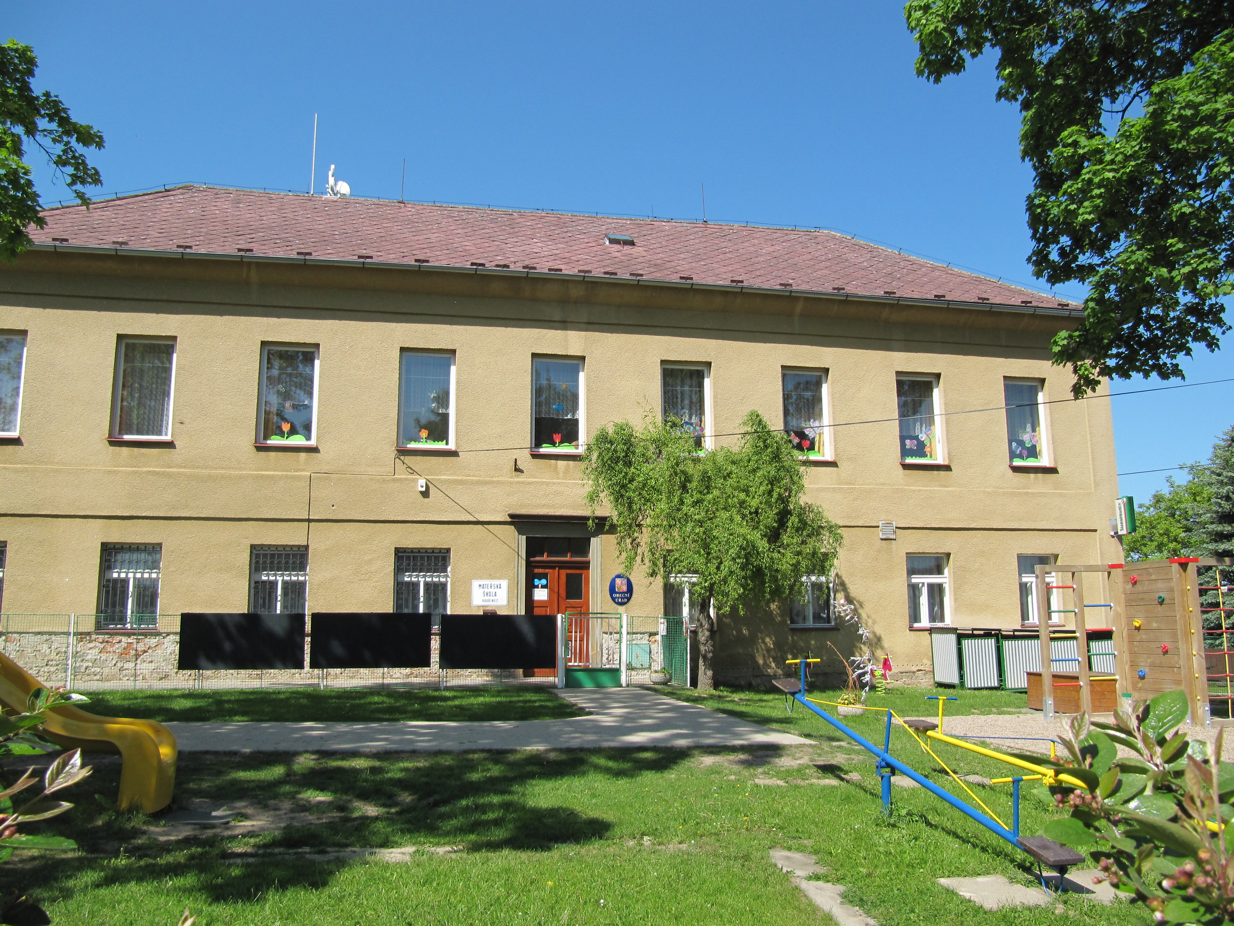 Vavřinec in Kutná Hora District, Czech Republic. Municipal office.